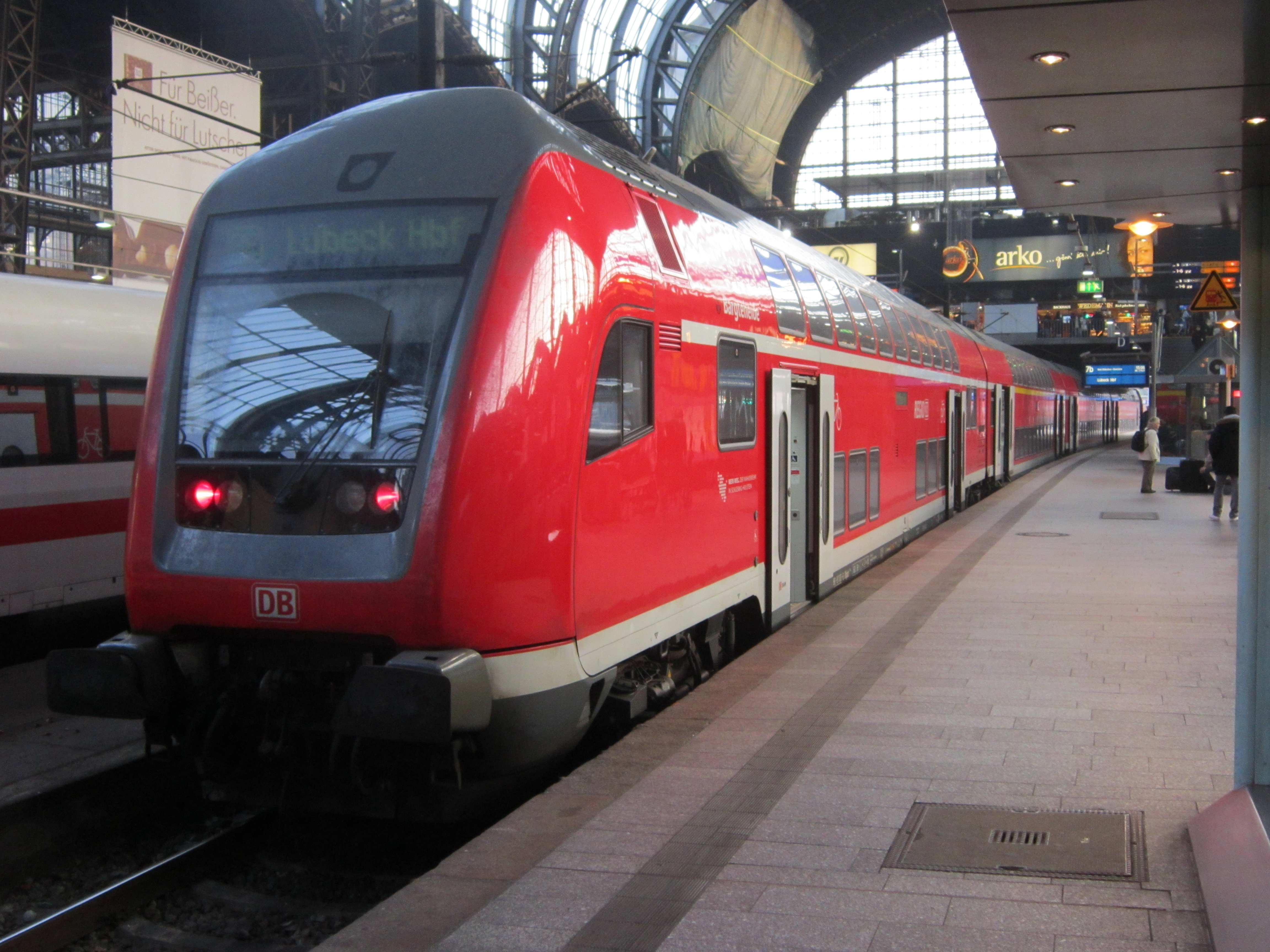 DB double-decker at Hamburg Hauptbahnhof